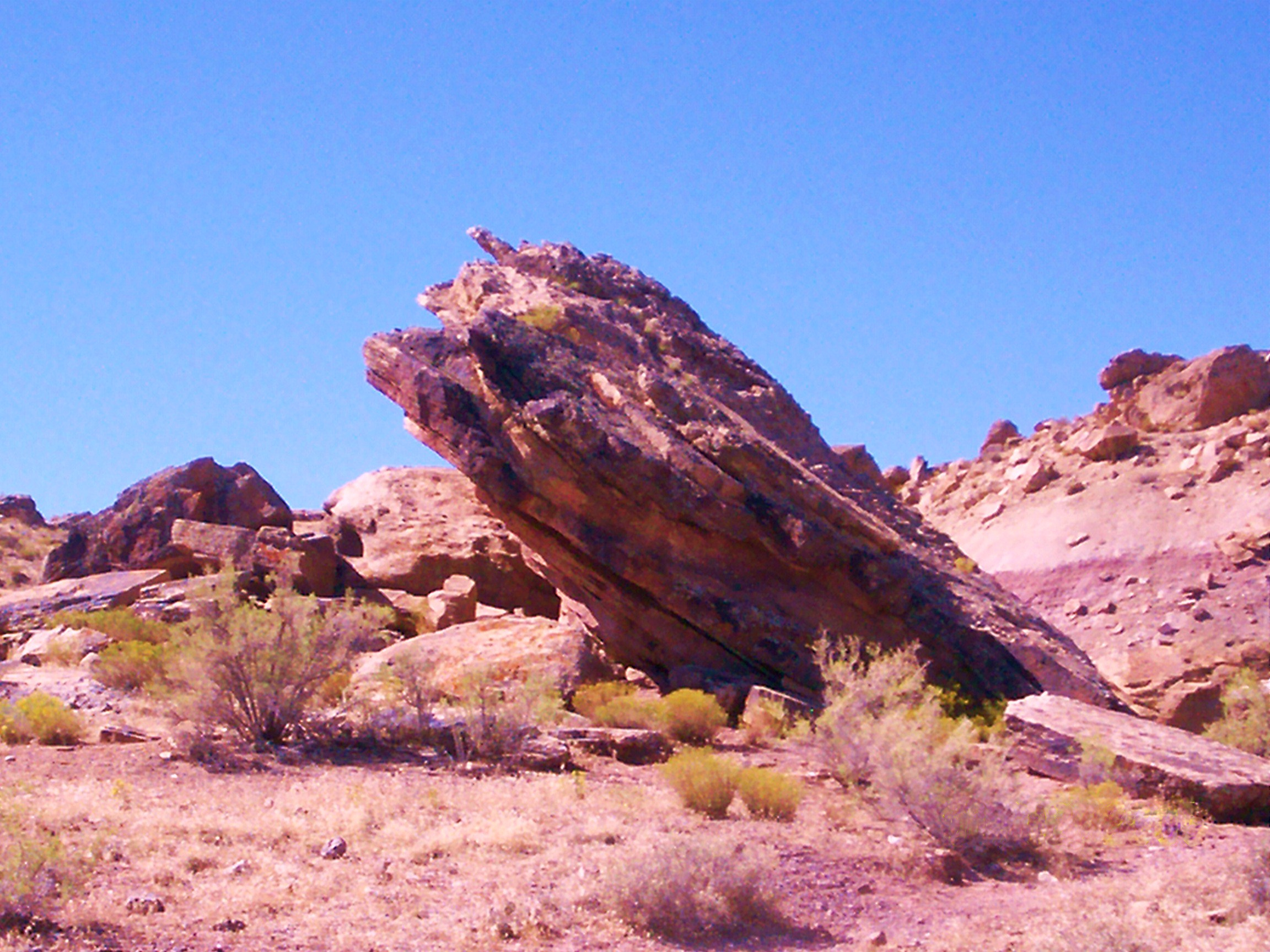 Rock formation at Rabbit Valley, Colorado.